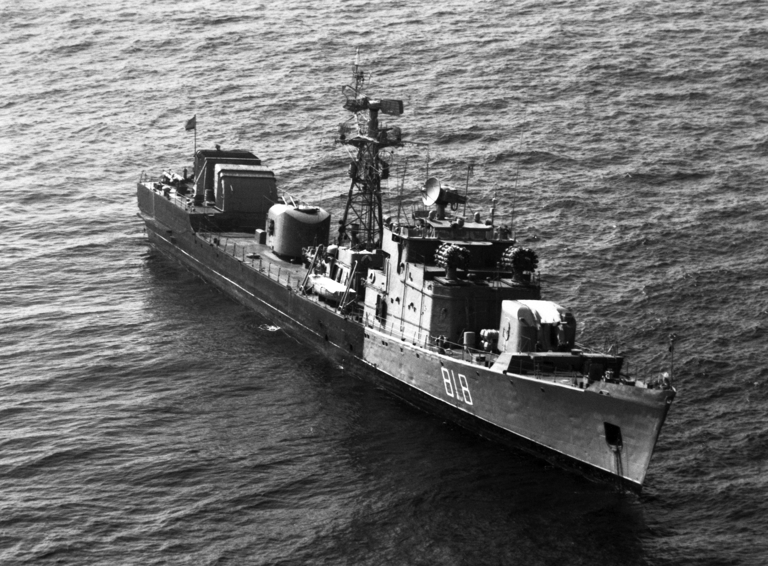 An elevated starboard bow view of a Soviet Mirka I class anti-submarine frigate.